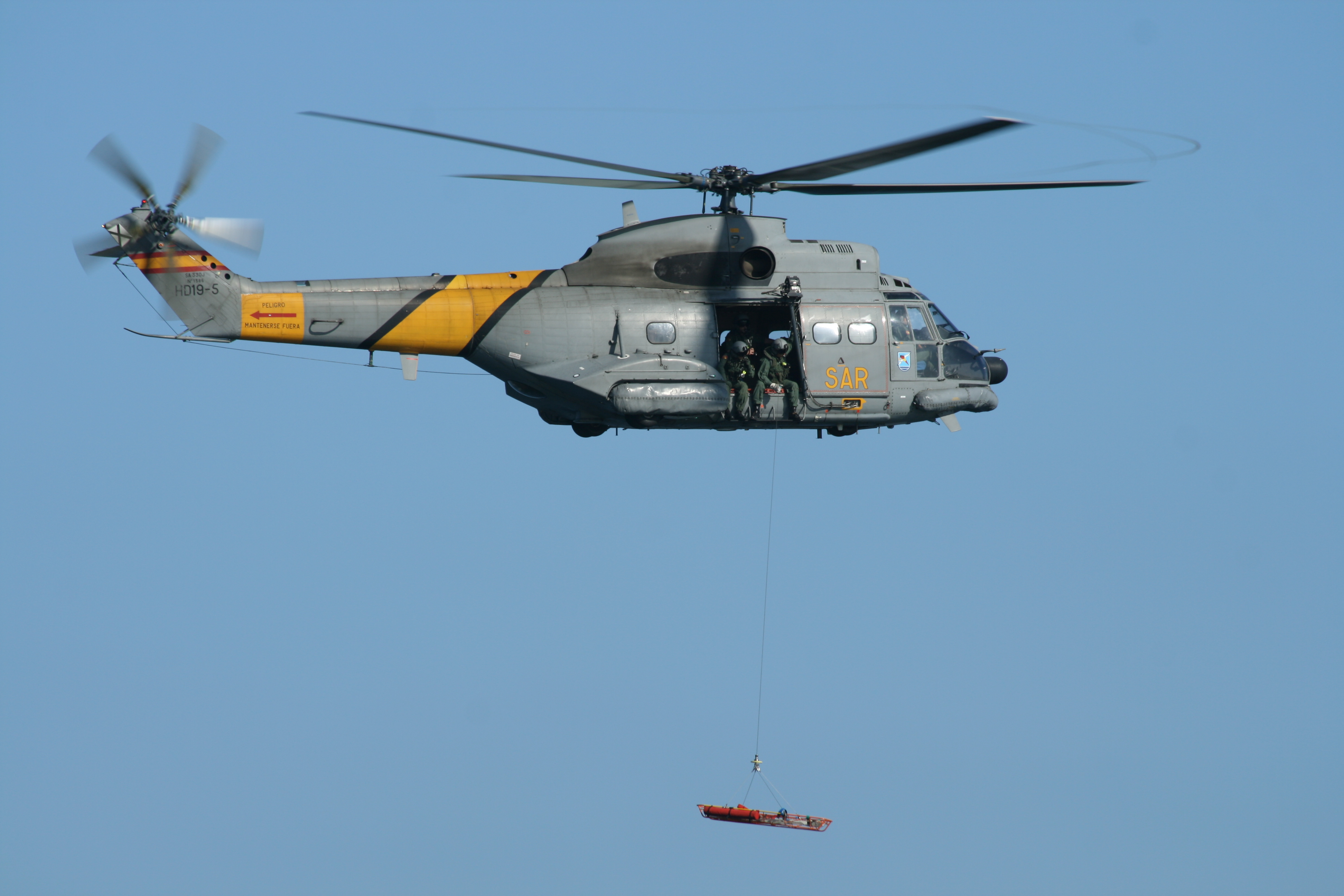 Aerospatiale SA 330J Puma (HD.19-5) del 801 Escuadrón de Fuerzas Aéreas del Mando Aéreo de Combate (MACOM) del Ejército del Aire español, con base en Palma de Mallorca (Islas Baleares), durante el Festival Aéro de Vigo (Galicia, España) Aerospatiale SA 330J Puma. Aerospatiale SA 330J Puma (HD.19-5) of the 801 Squadron of Air Forces of the Combat Air Command (MACOM) of the Spanish Army of the Air, with base in Palma de Mallorca (Balearic Islands), during the Airshow of Vigo (Galicia, Spain)